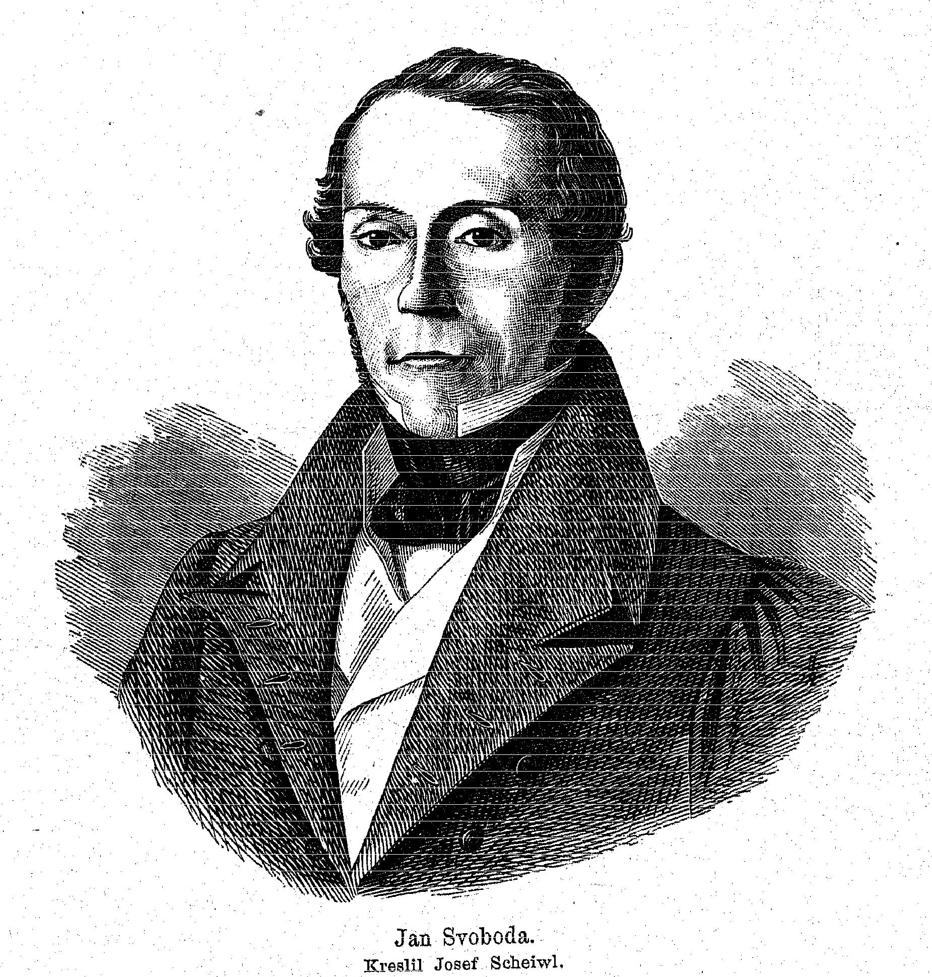 Portrait of Jan (Vlastimír) Svoboda (1803 - 1844), a Czech teacher, promoter of modern methods in pre-school education.